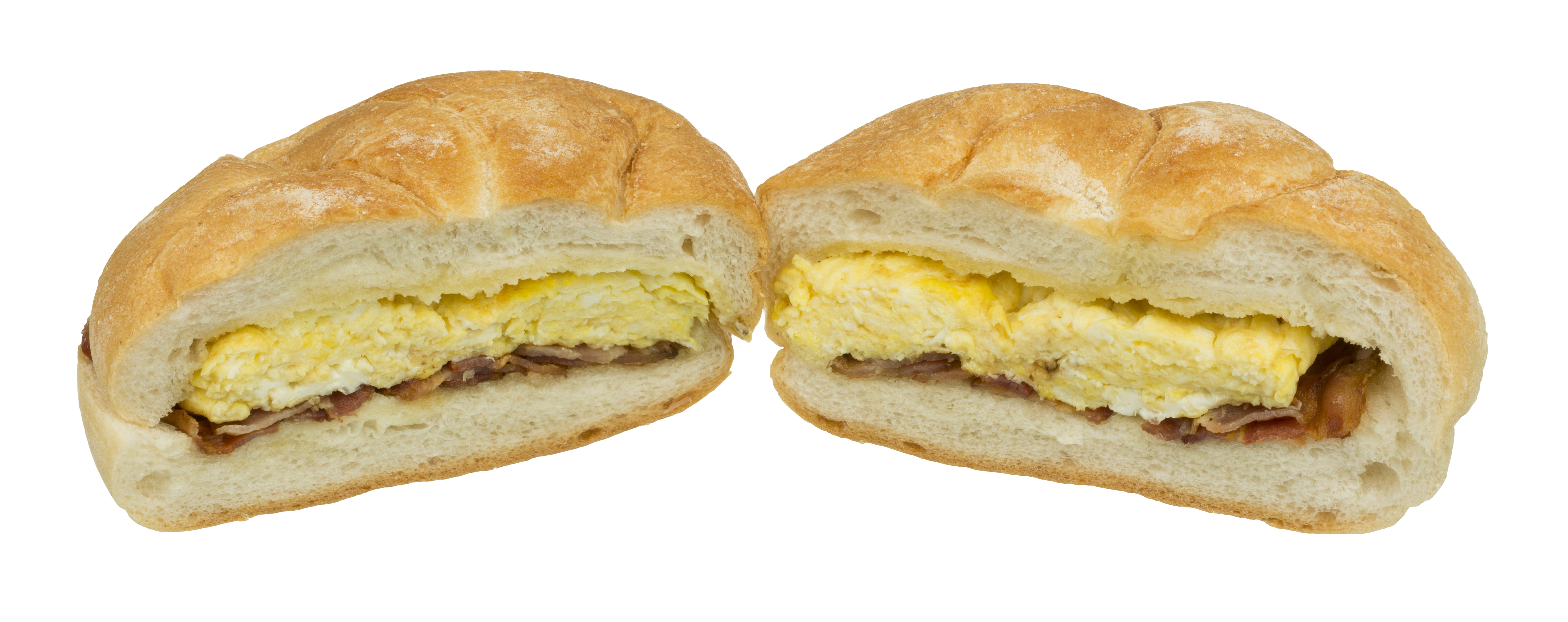 A New-York-style roll sandwich, this one a bacon & egg breakfast sandwich from a local diner in Brooklyn, NY.